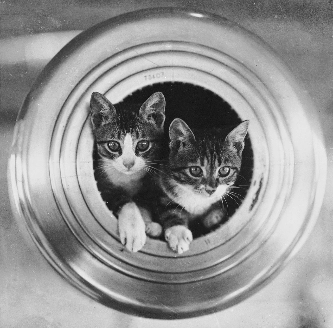 Two kittens in muzzle of 7.5 inch gun on HMS Hawkins.